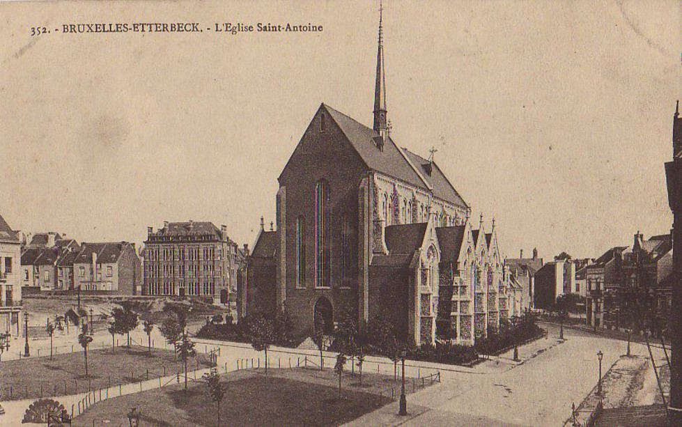 Eglise Saint-Antoine (Etterbeek)